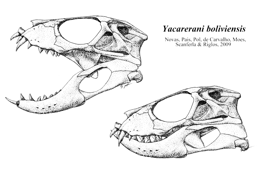 Skeletal reconstruction of Yacarerani boliviensis.